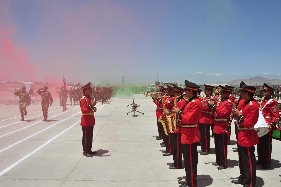 The Afghanistan Ministry of Defense Band plays as the recruits parade by. (ISAF photo)